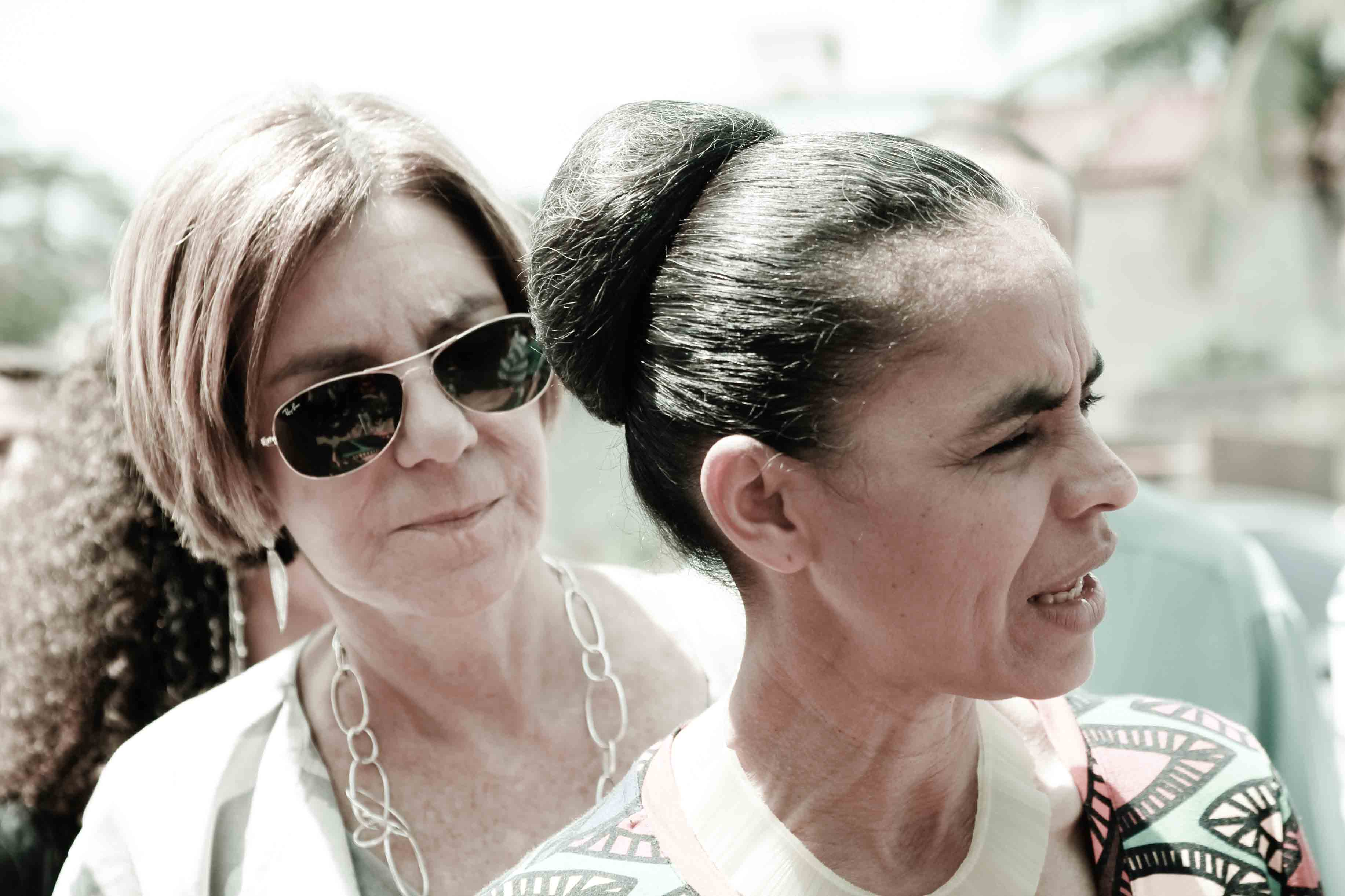 Neca Setubal (esquerda) e Marina Silva em visita ao Galpão das Paneleiras.